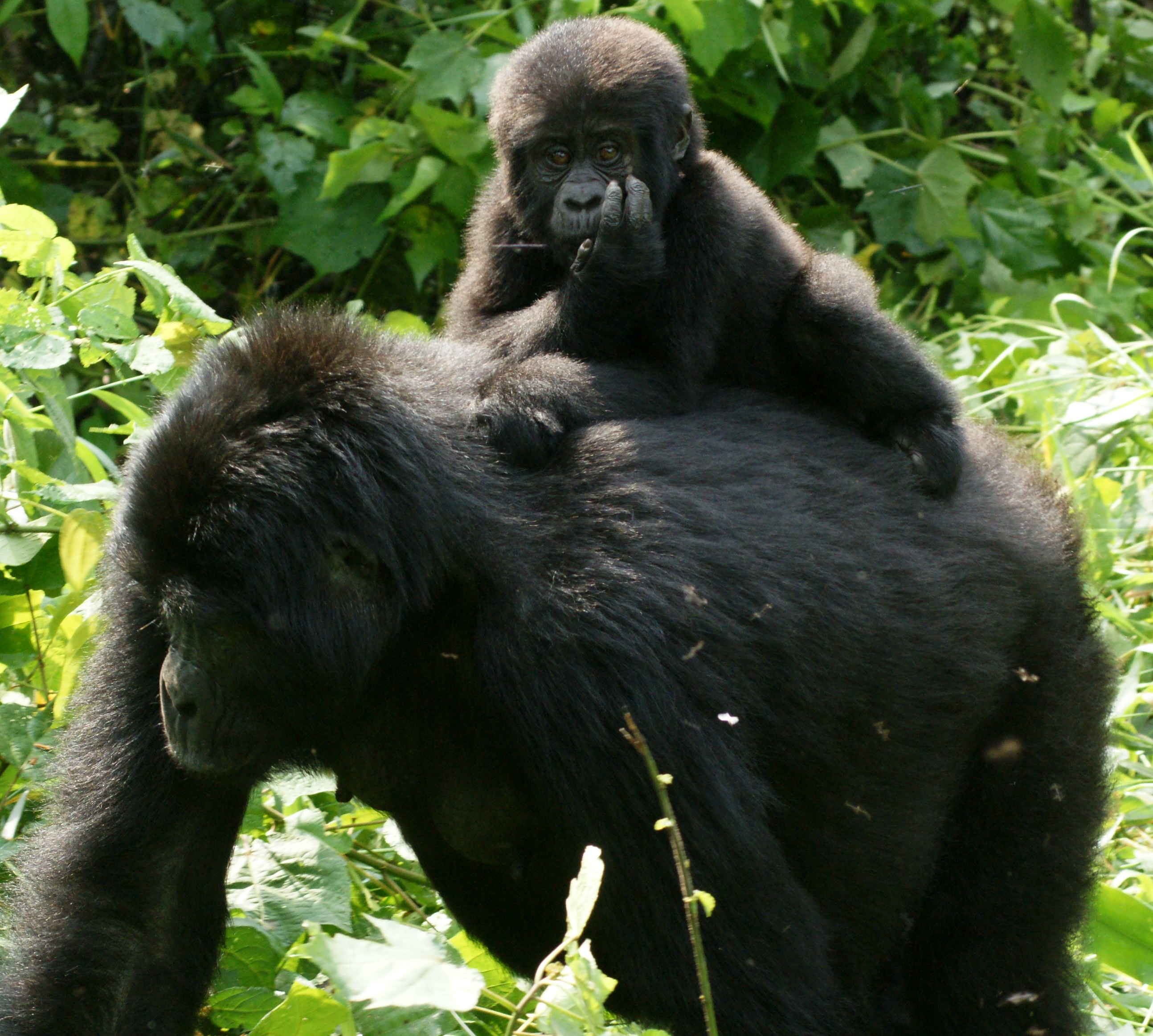 Gorilla Tracking - 20